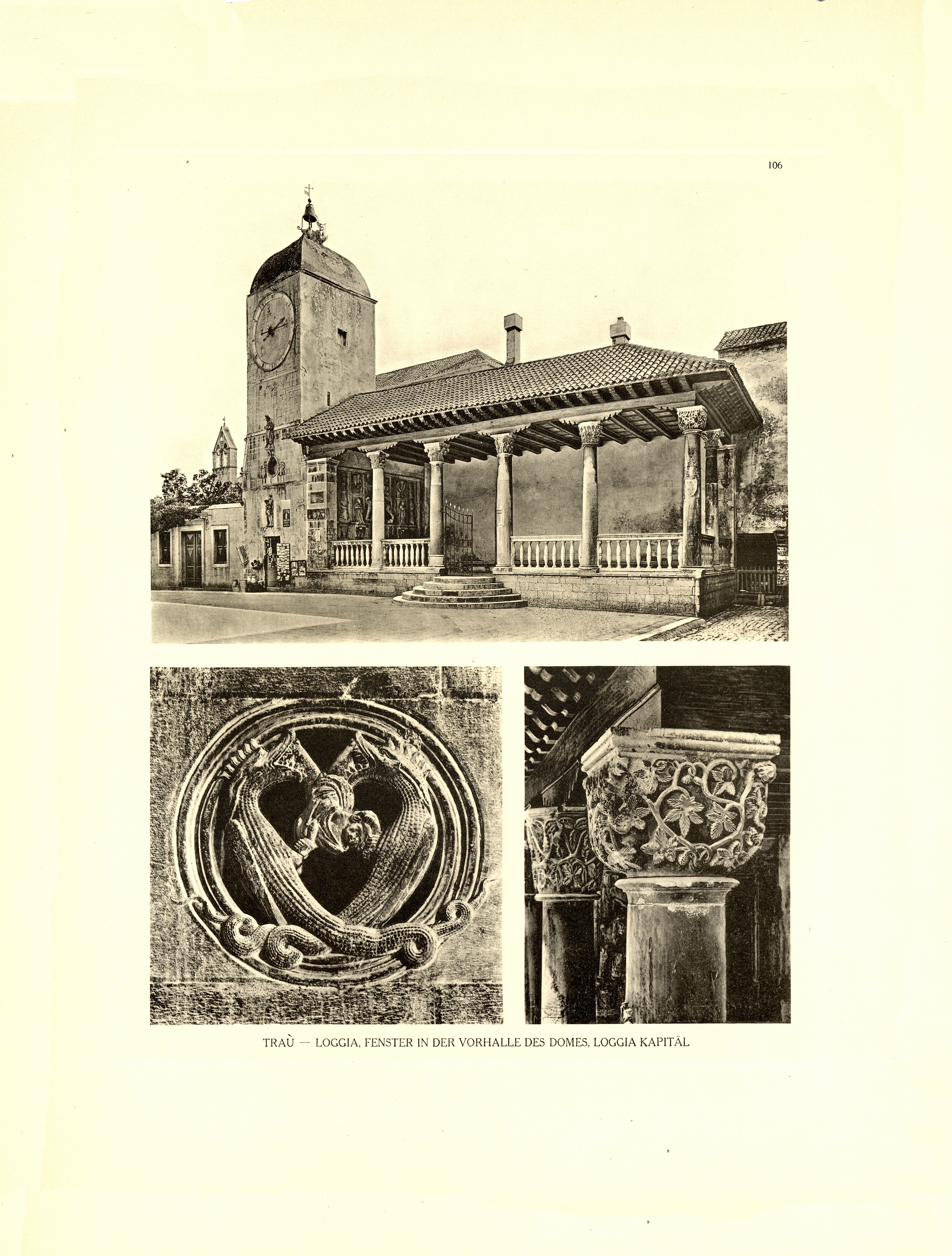 Denkmäler der Kunst in Dalmatien, Herausgegeben von Georg Kowalczyk, mit einer Einleitung von Cornelius Gurlitt. 132 Lichtdrucktafeln nach Naturaufnahmen des Herausgebers Georg Kowalczyk sowie nach Kupfern aus dem Werke von Robert Adam: Ruins of the Palace of the Emperor Diocletian at Spalat(r)o, 1764 Wien, 1910, Verlag von Franz Malota Scanprojekt Bundesdenkmalamt Österreich This scan or this PDF-file was created within the Austrian Wikipedia-project Denkmalpflege Österreich (German only) supported by Wikimedia Germany and Wikimedia Austria as part of the Wikipedia community-project to collect public domain documents from the library of the Heritage Monuments Board of Austria. This document describes or depicts an object which is located in Croatia today. Texts are written in German language. Send requests for uncompressed scans to Hubertl. This work is in the public domain in the United States, and those countries with a copyright term of life of the author plus 100 years or less. This file has been identified as being free of known restrictions under copyright law, including all related and neighboring rights.